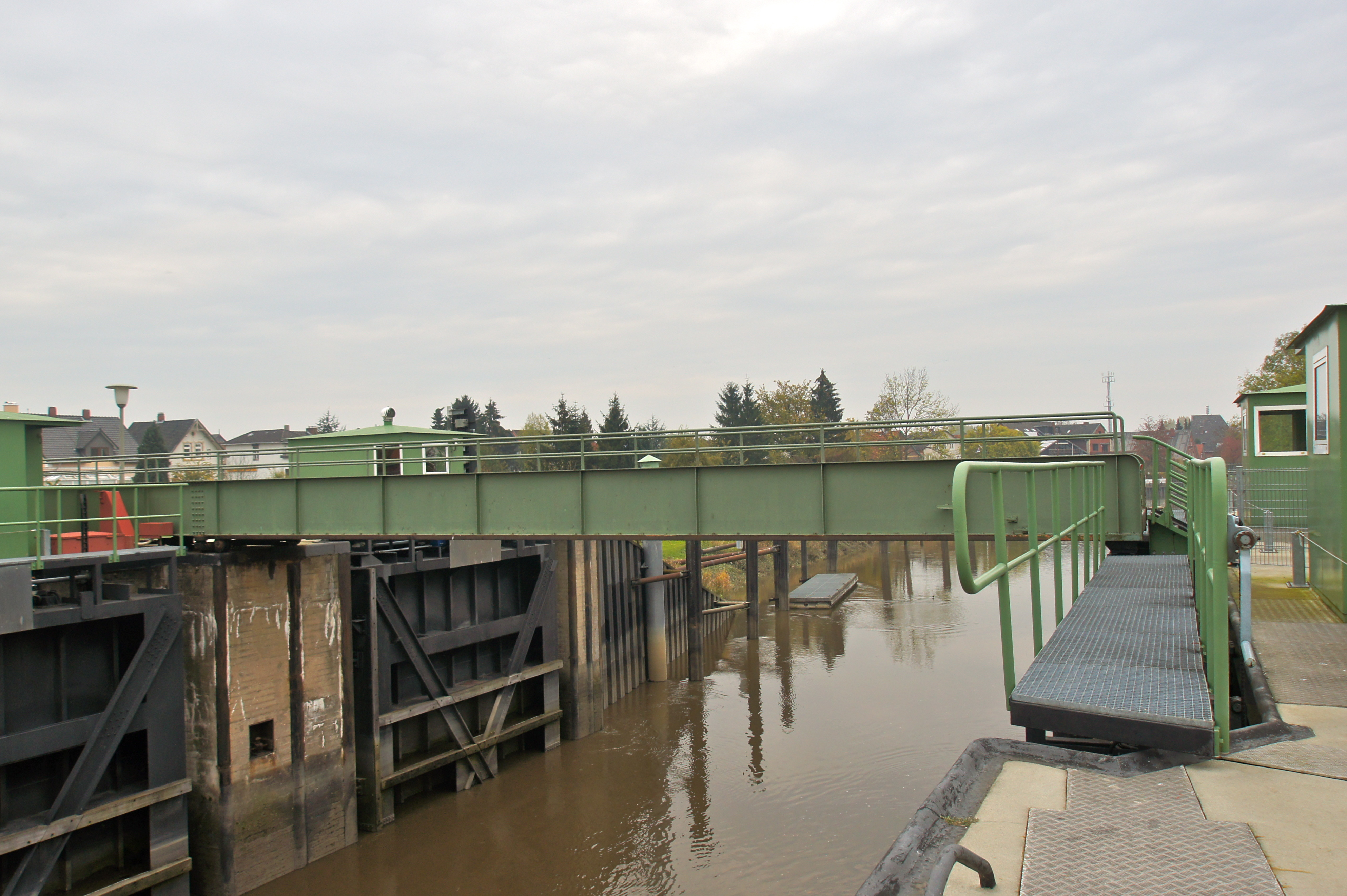 Hamburg (Neuenfelde), Germany: The foot bridge over the Este